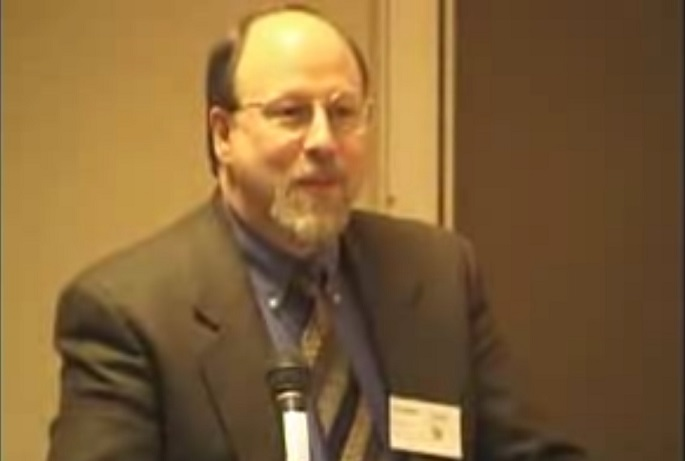 Steven A. Kent speaks at conference of Leo J. Ryan Education Foundation (formerly CULTinfo)